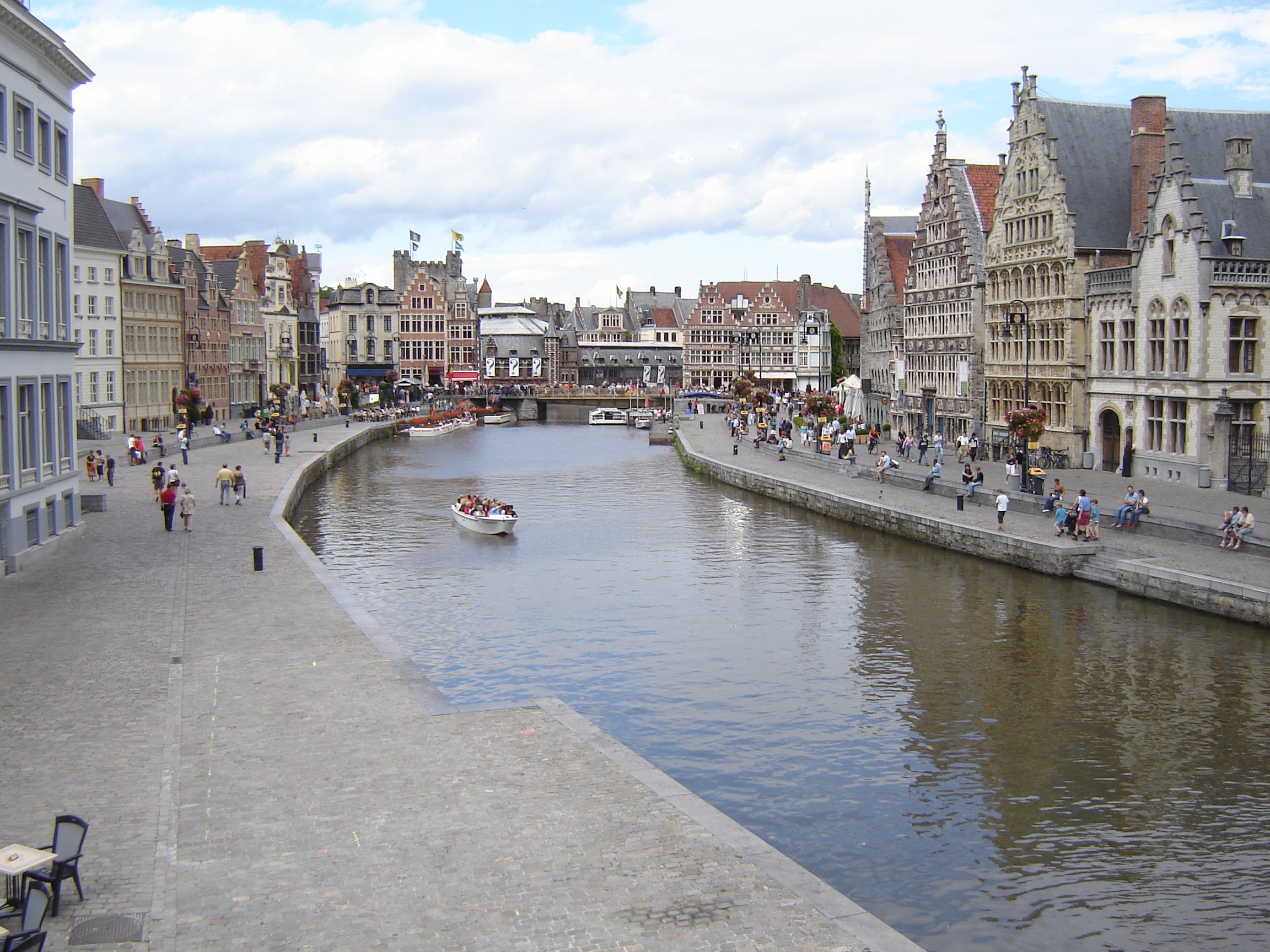 Graslei (right) and Korenlei (left) along the river Lys/Leie in Gent. Gent, East Flanders, Belgium